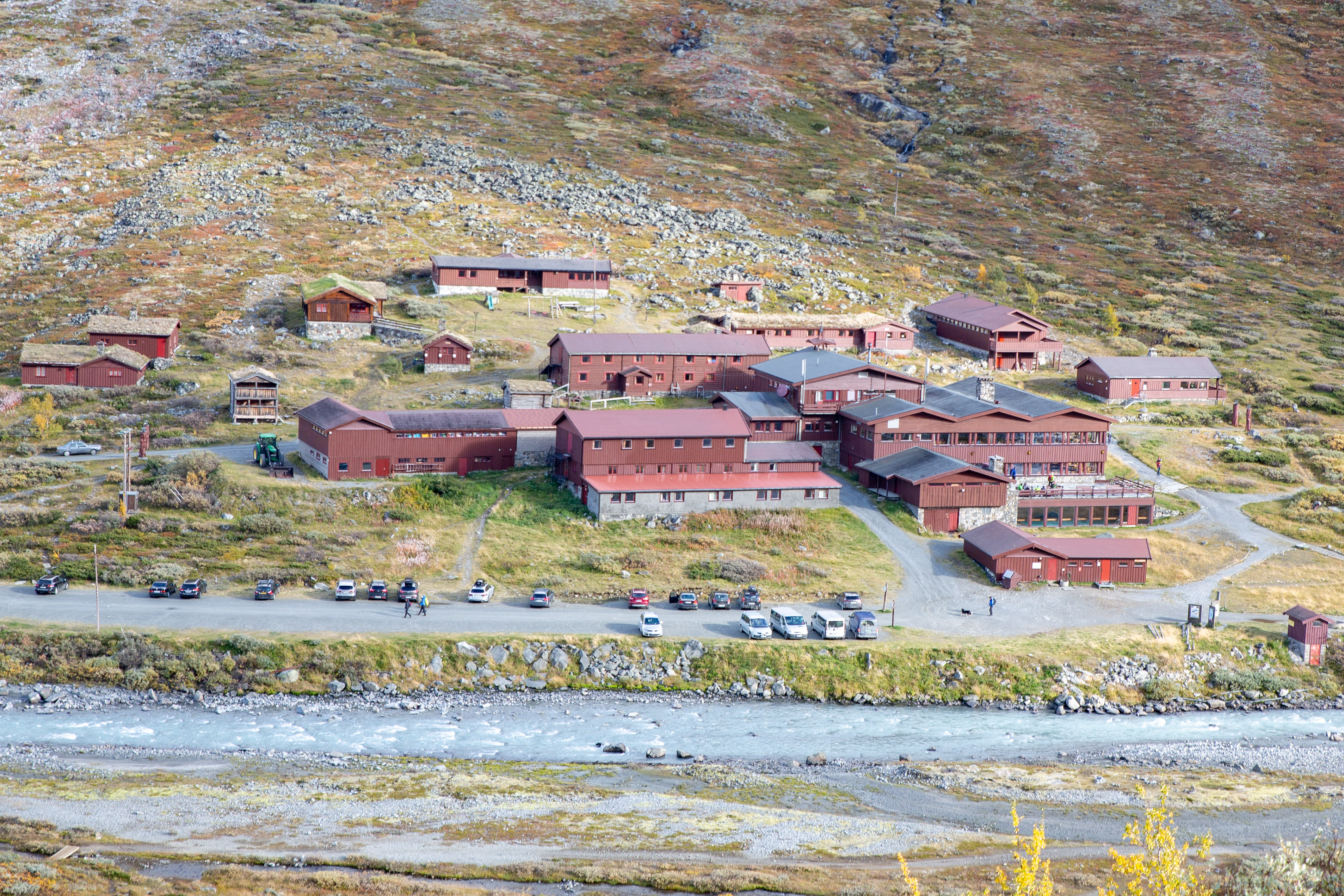 Spiterstulen mountain lodge in Autumn in Jotunheimen as seen from the west on the path down from Galdhøpiggen mountain.